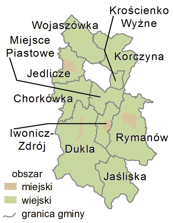 Subcarpathian Voivodeship - krośnieński county gminas